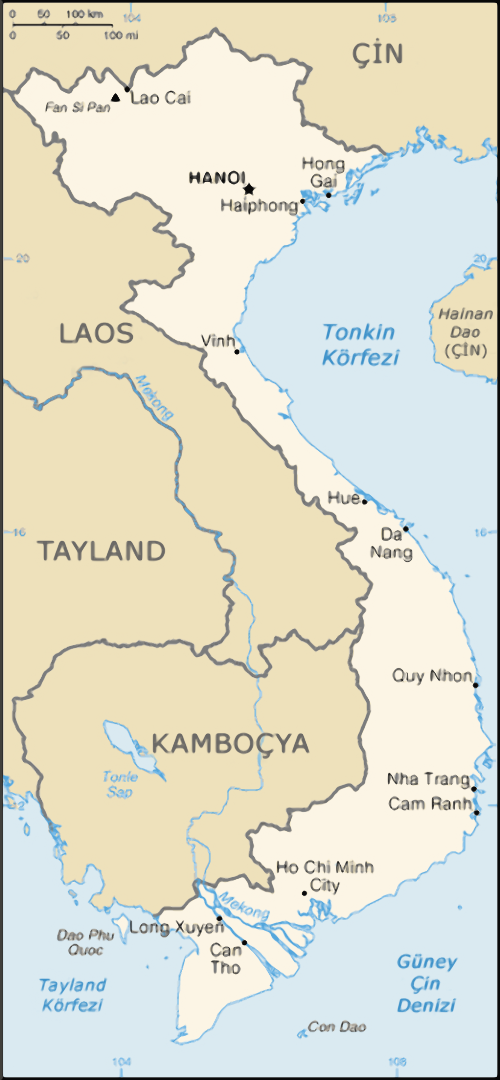 CIA map of Vietnam